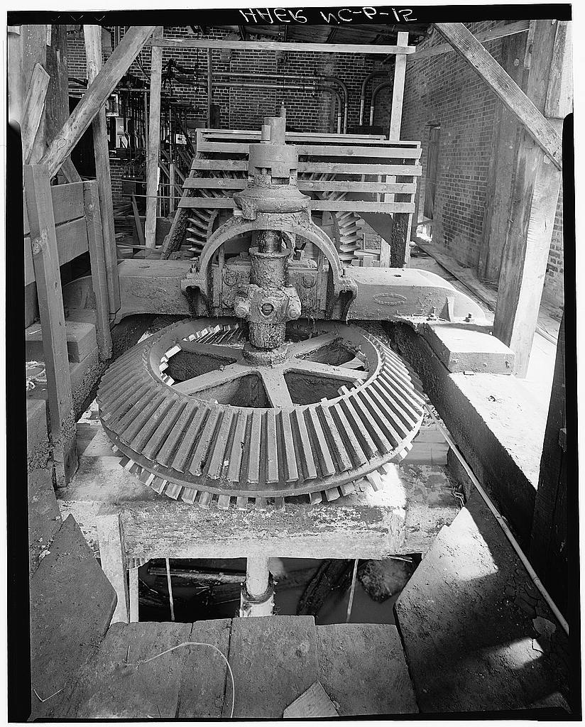 "Interior view of the power house," Glencoe Cotton Mills, State Routes 1598 & 1600, Glencoe, Alamance County, North Carolina. Photograph by Randall Page, April, 1978, Historic American Engineering Record. The Glencoe Cotton Mills were owned and operated by the Holt family of Alamance County, who were among the earliest textile barons of the south. Image courtesy of the Library of Congress, Washington, D.C.